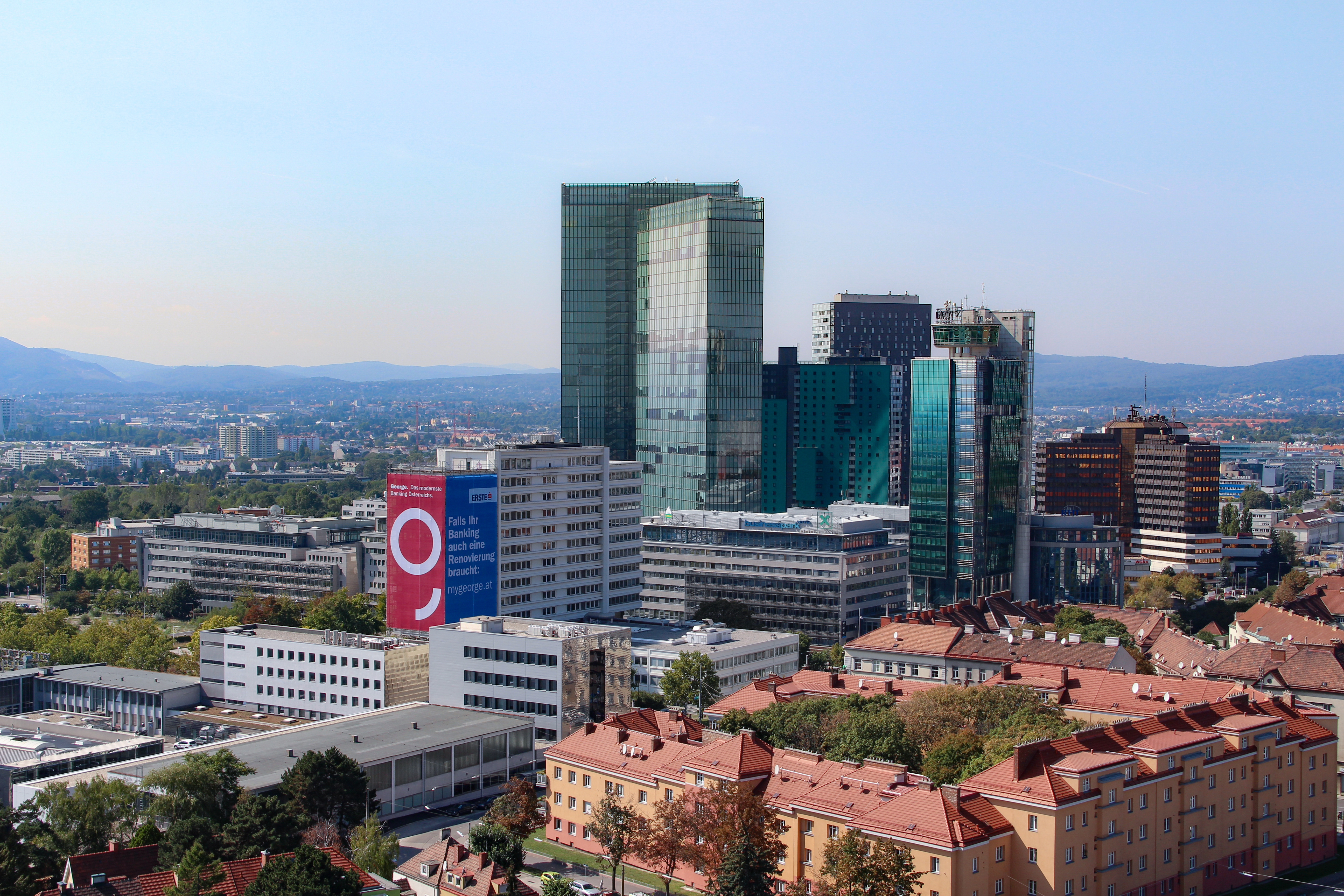 Wienerberg City in Vienna, Austria. View from the top of the watertower in Favoriten.